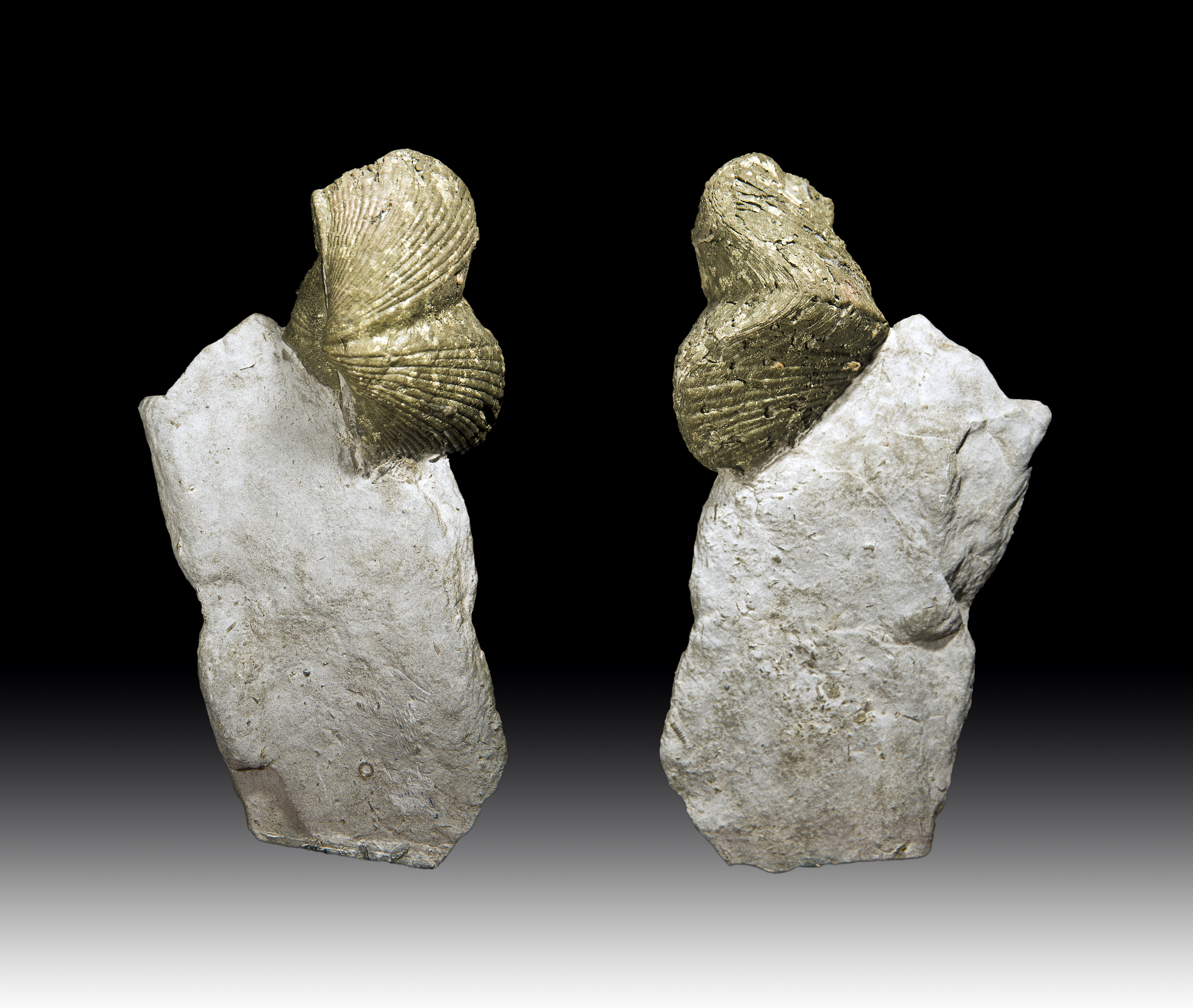 Paraspirifer bownockeri, in pyrite. Different views of the same specimen. Locality : Silica Formation , Lucas County, Sylvania, Ohio, USA Stage : Devonian from 416 to 359.2 million years ago Size : (of Paraspirifer) 5.1x3.9x3 cm